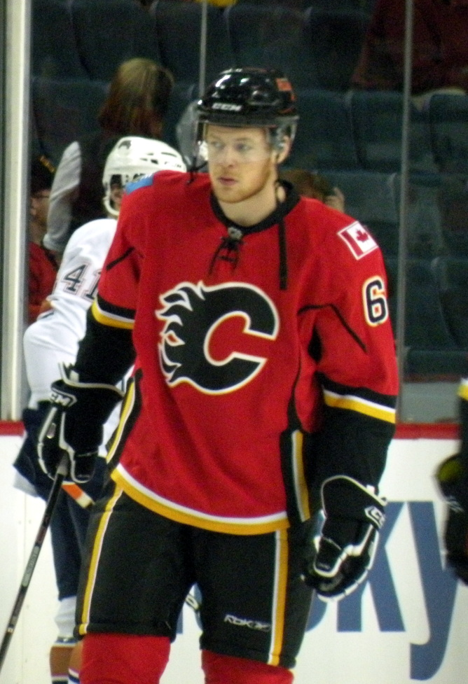 Calgary Flames defenceman John Negrin during warmup prior to a National Hockey League game against the Edmonton Oilers in Calgary.